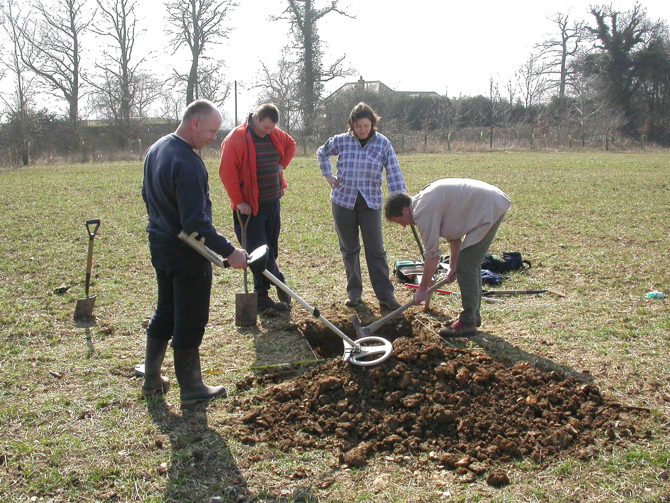 62_H_Frox6 This was added from the site called under the name portableantiquities. See source for details.